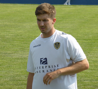 English footballer Luke Murphy in action